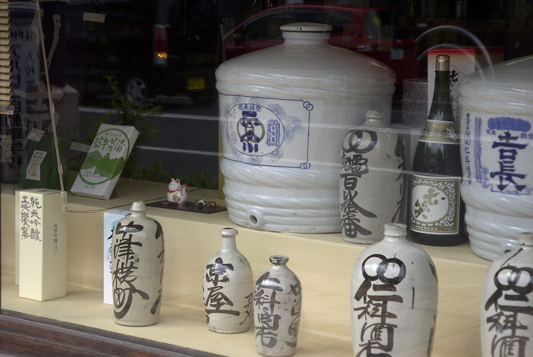 Sake containers in a Nakatsugawa store. Photo taken by me on July 4, 2006.